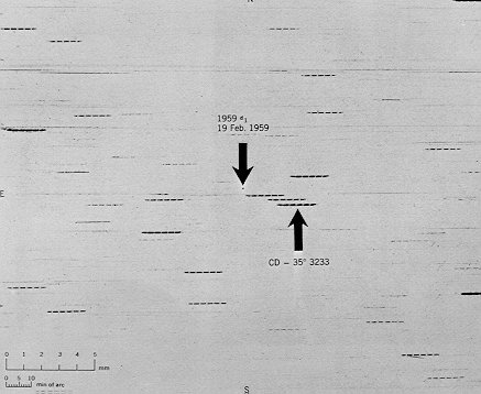 Photo of Vanguard 2 in orbit taken by the Smithsonian's Baker-Nunn camera emplaced at the combined radio and optical tracking station at Woomera, Australia.